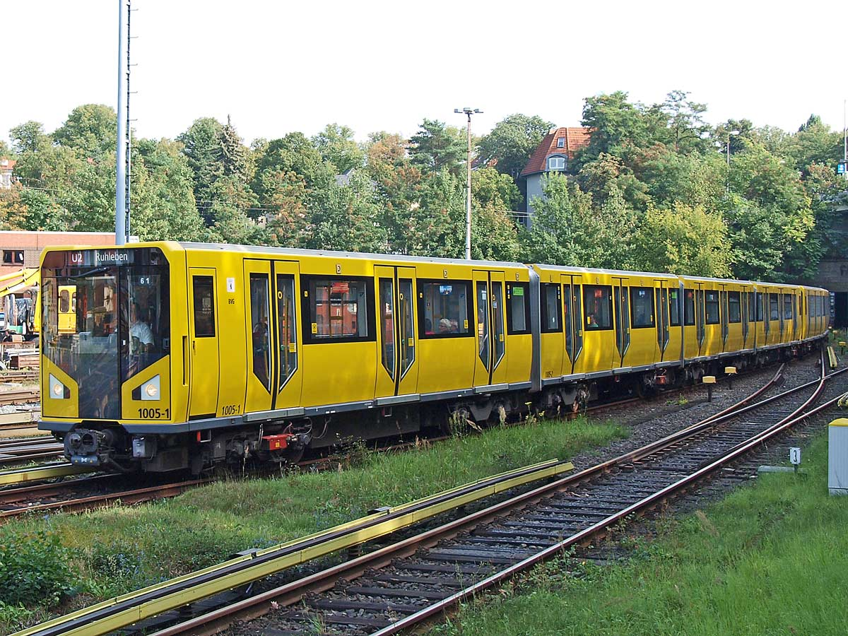 Berlin U-Bahn(subway) train type HK in Olympiastadion station.